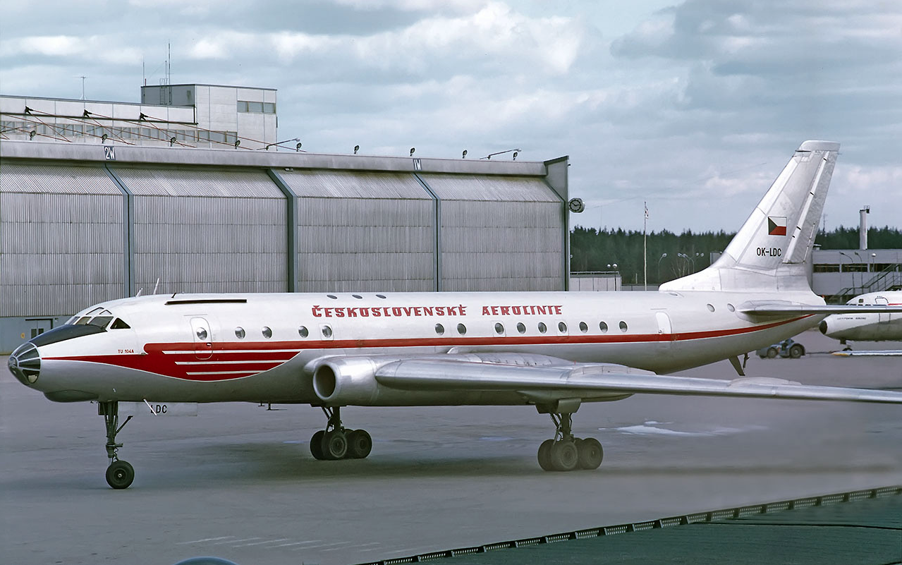 A CSA - Ceskoslovenske Aerolinie Tupolev TU-104A at Arlanda Airport (ARN / ESSA)